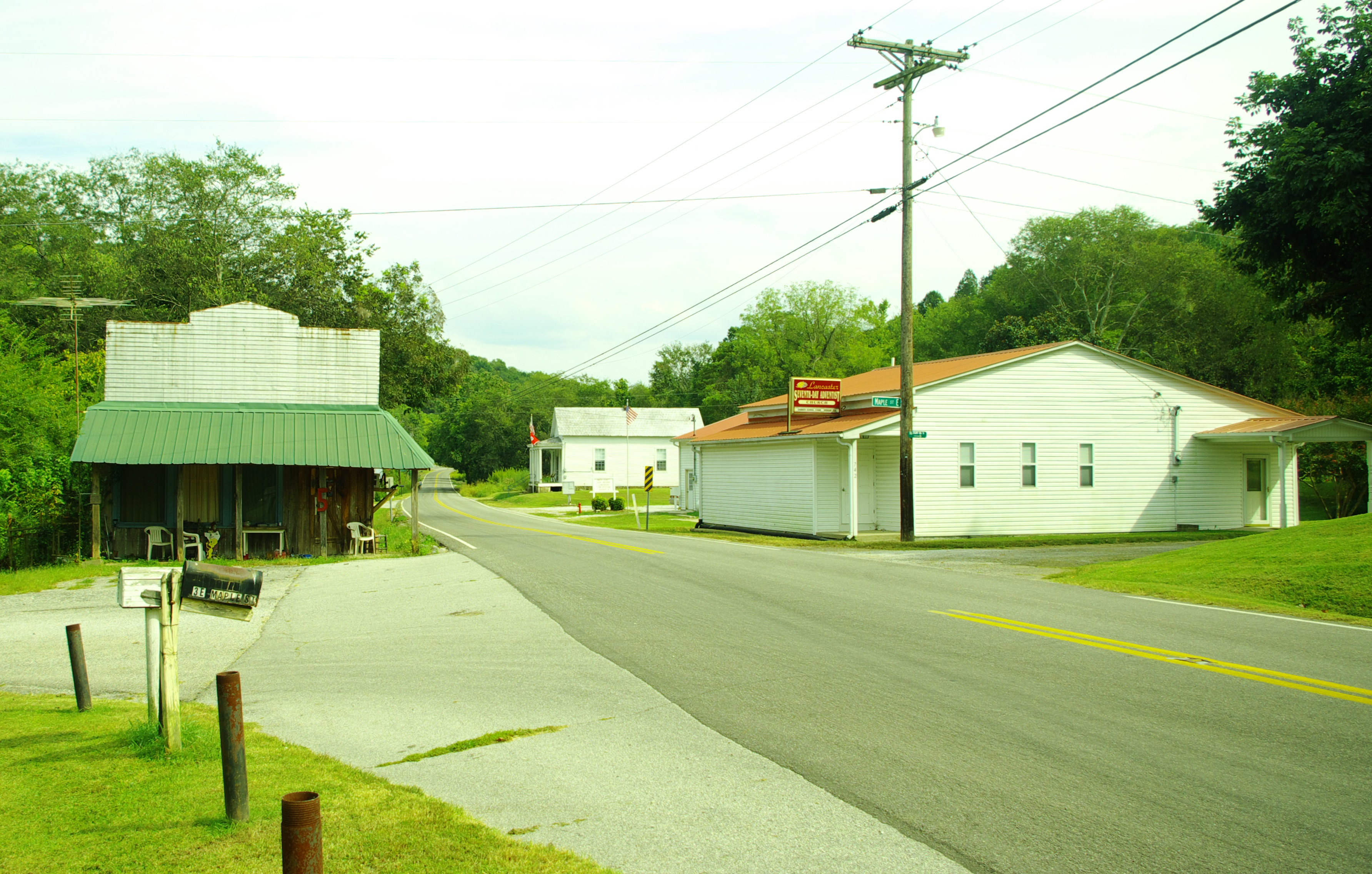 Lancaster, Tennessee, United States, showing Tennessee Highway 141. An abandoned store is on the left, and the Lancaster Seventh-Day Adventist Church is on the right. The defunct Lancaster Post Office is in the distance on the right.